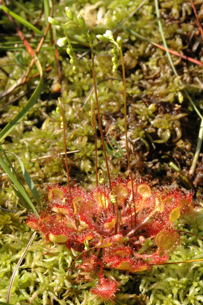 Drosera rotundifolia from Commanster, Belgian High Ardennes .